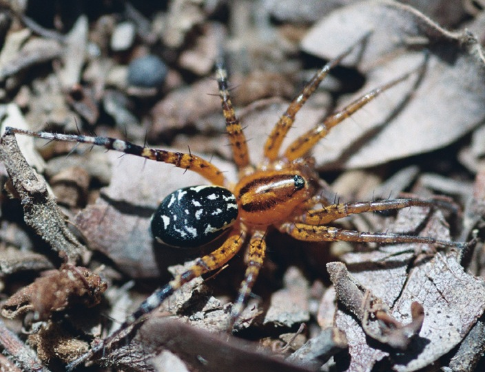 Copa flavoplumosa female from Livingtone, Zambia.